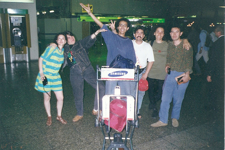 Venezuelan compositor and musician Franklin Pire in Frankfurt's airport with friends.